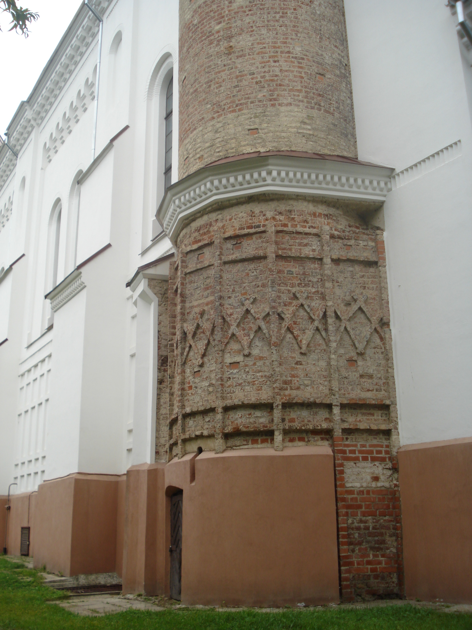 Orthodox Cathedral of the Dormition of the Theotokos in Vilnius